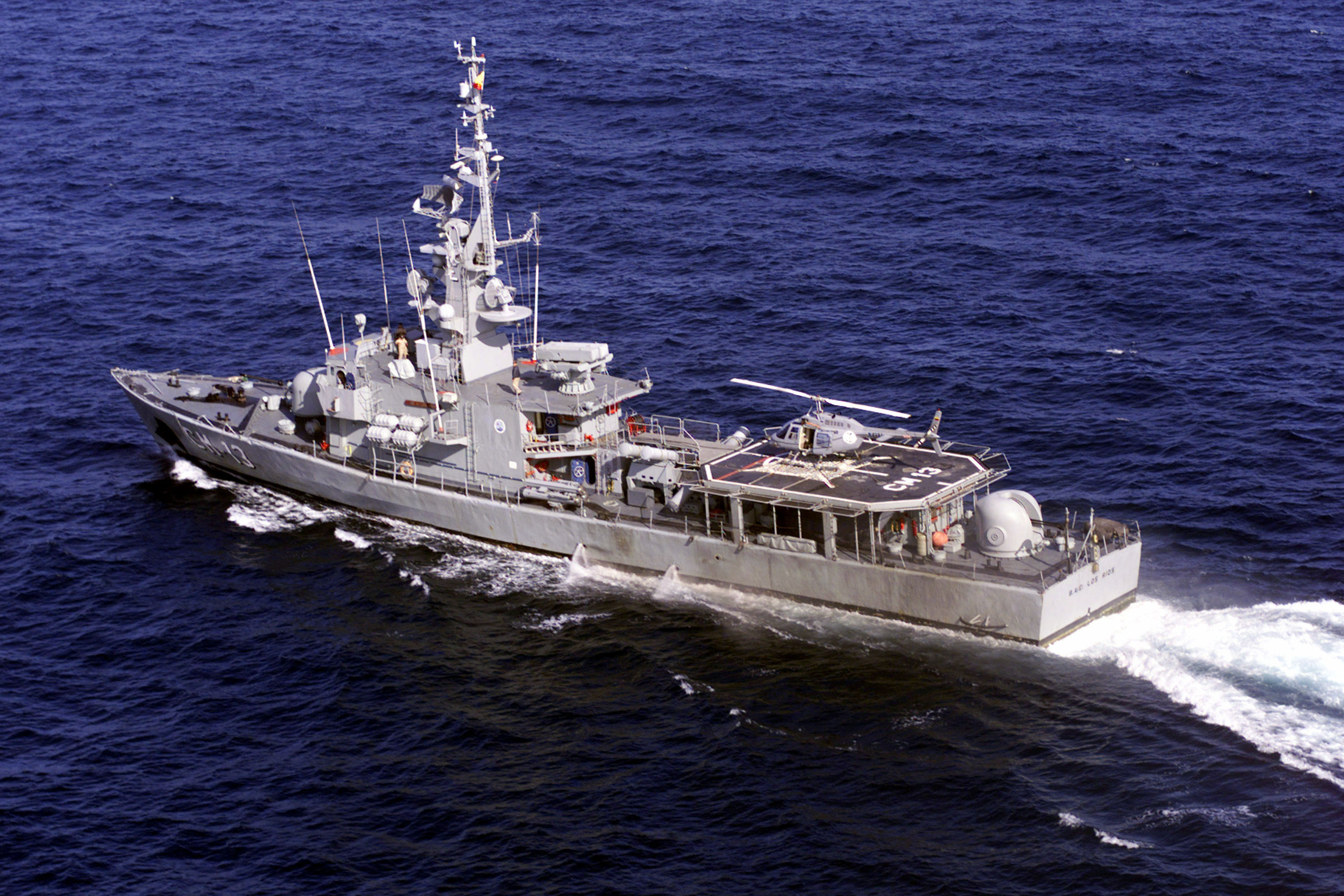 Note: This description has been identified as biased or incorrect: Image shows hull number CM 13, known to be BAE Los Rios. 990604-N-5862D-016 Operation / Series: TEAMWORK SOUTH `99 Ecuadorian navy ship ESMERALDAS (CM 11) cruises off the coast of Ecuador during training exercises with USS REUBEN JAMES (FFG 57) (not shown) while en route to Exercise TEAMWORK SOUTH '99. Reuben James will be conducting bilateral operations with the Chilean navy. Camera Operator: PH1 CHRIS DESMOND, USN Date Shot: 4 Jun 1999